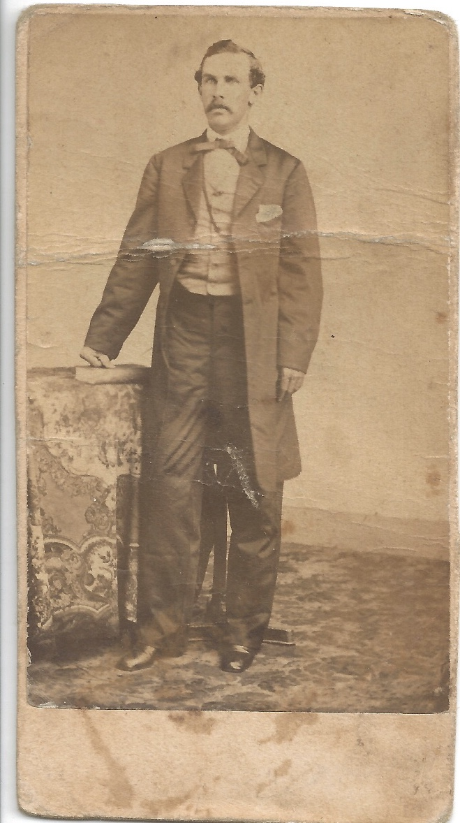 Joshua Worthington Dorsey in wedding suit